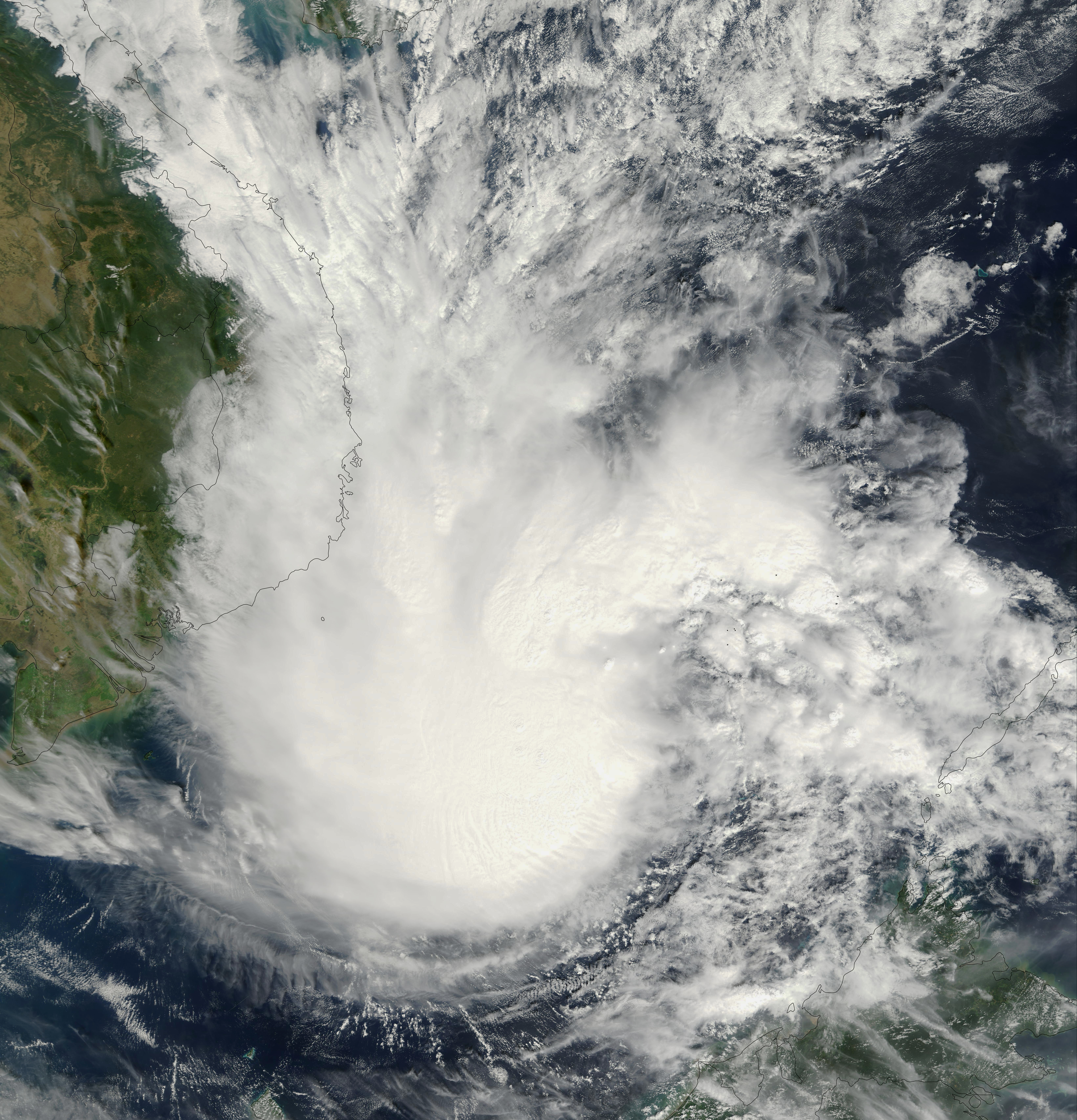 Tropical Storm Rumbia having reformed on December 5, 2000.